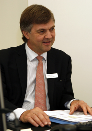 Professor Roger Kirby, Director of The Prostate Centre